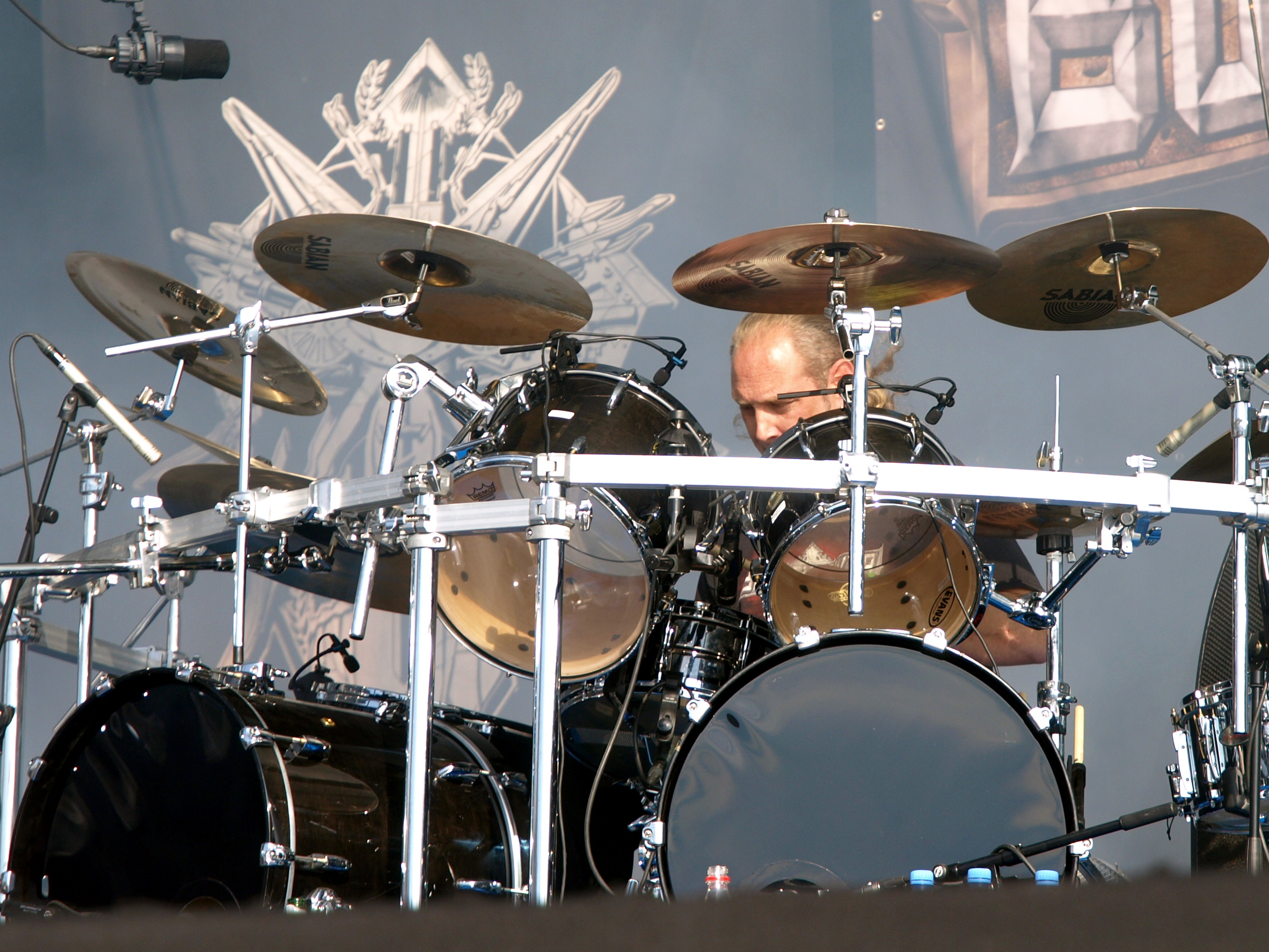 British death metal band Bolt Thrower live atTuska Open Air 2013